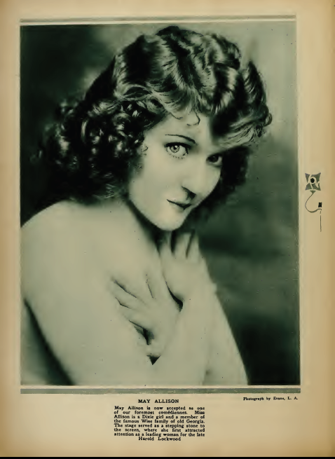 May Allison Motion Picture Classic 1920